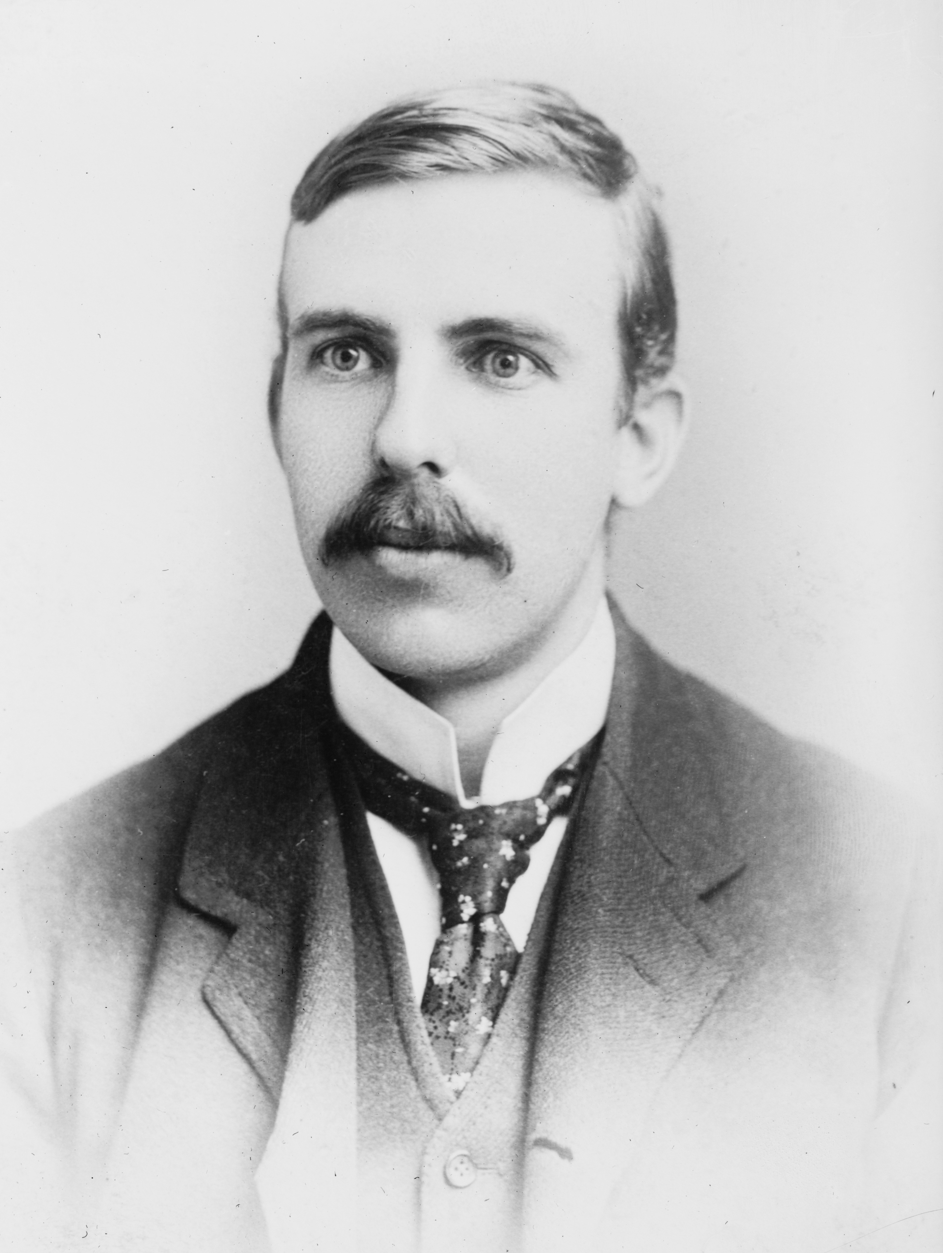 Ernest Rutherford (1871-1937), nuclear physicist